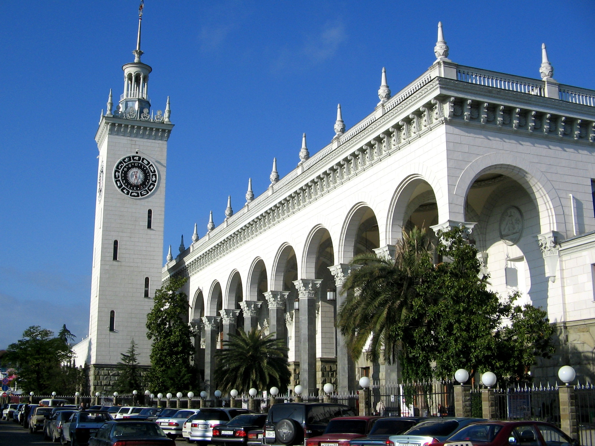 Вокзал Сочи-Пассажирский